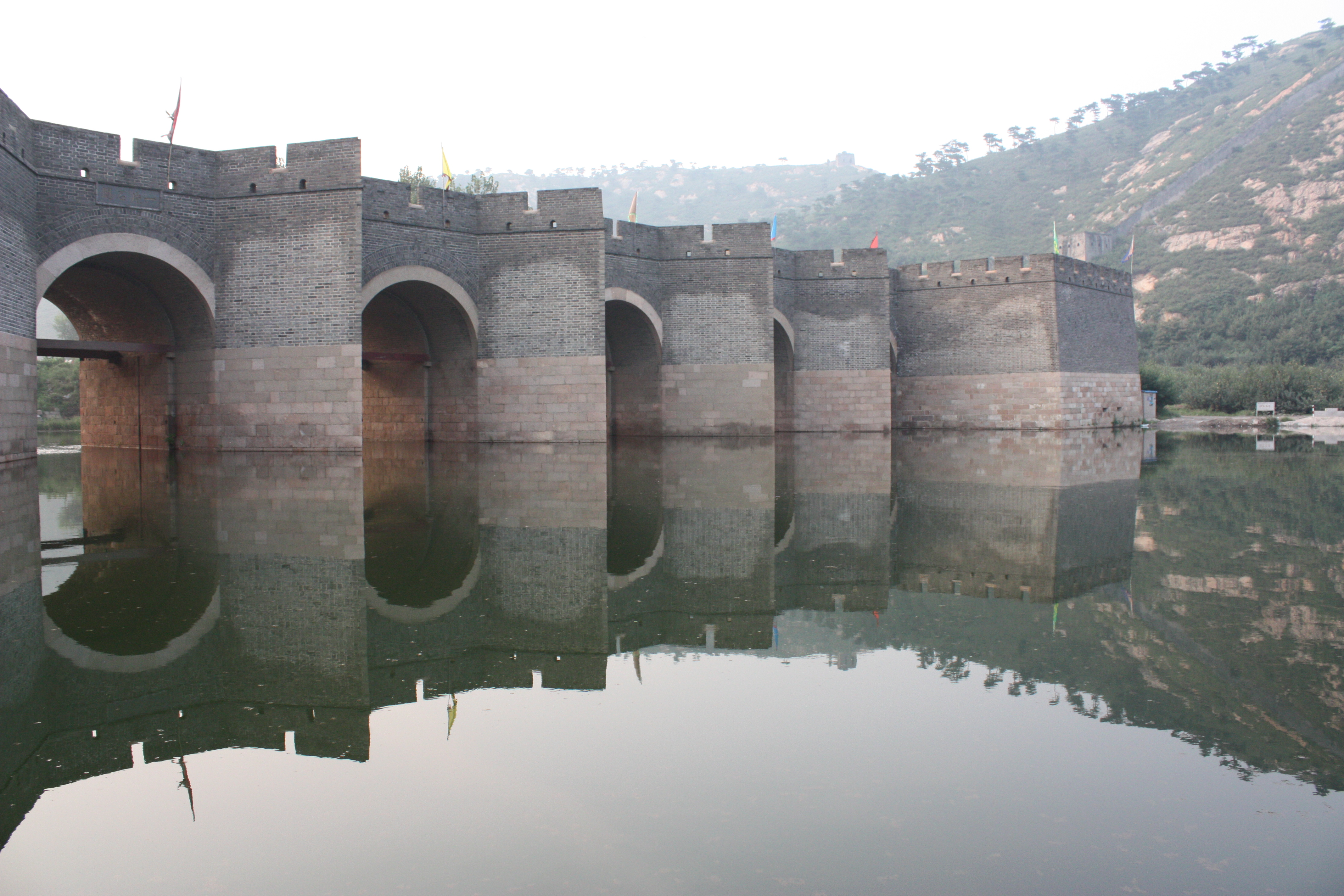 Great Wall of China at Jiumenkou